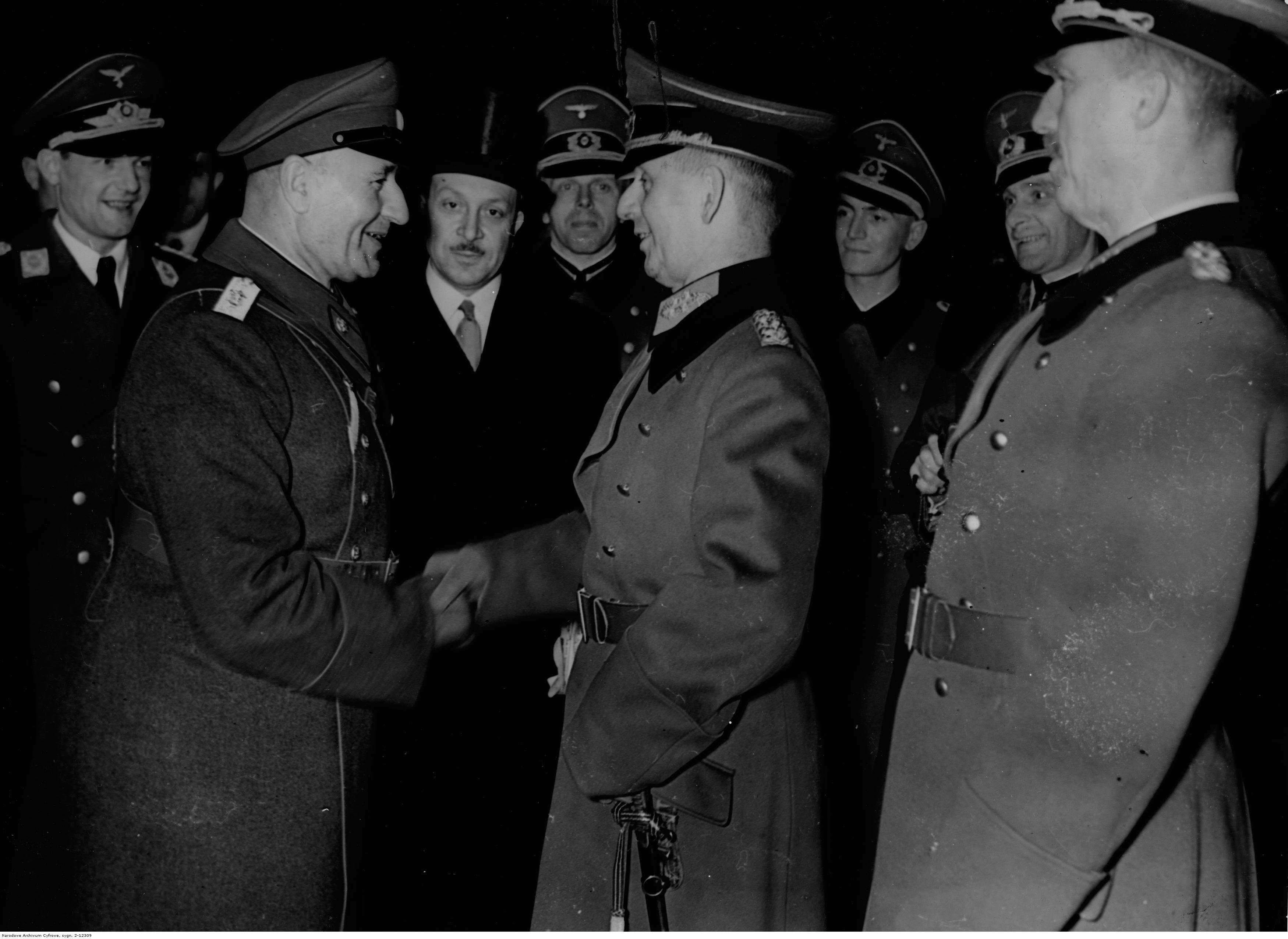 OKW Chief of the Defense Economy and Armament Office Georg Tomas says goodbye to Bulgarian Defense Minister Nikola Mikhov. Visible on the right, Berlin commandant Paul von Hase